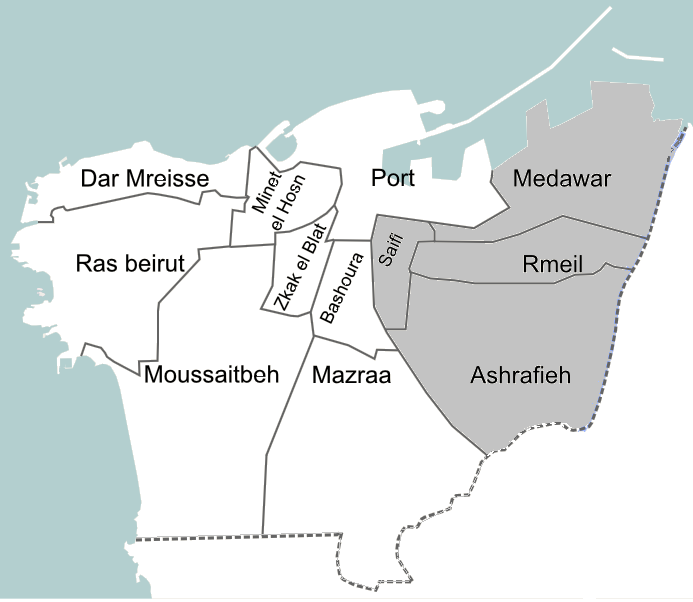 Beirut I electoral district, as per 2017 election law. Based on File:Beirut II electoral district (2017).png